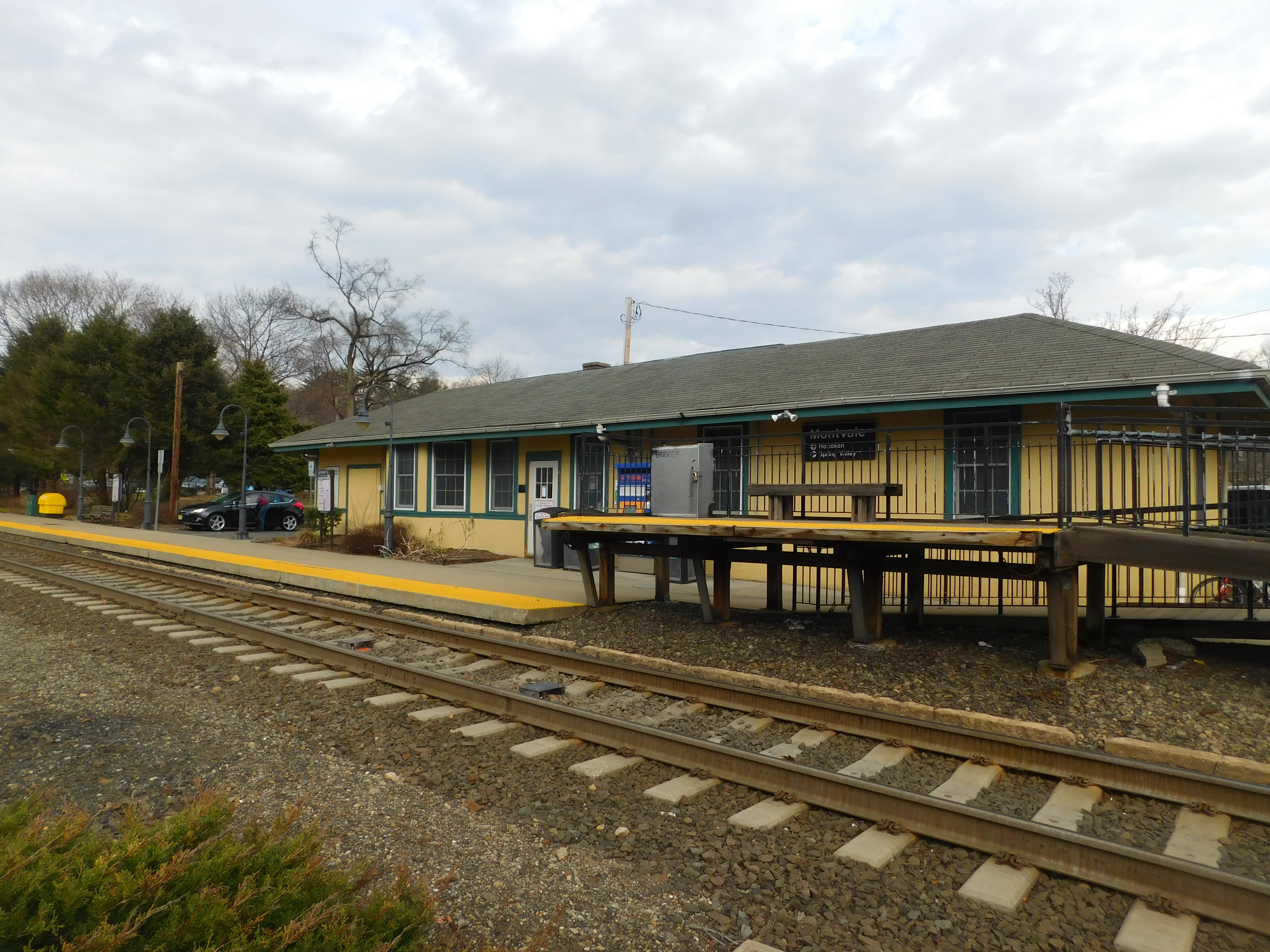 Montvale station in April 2018.